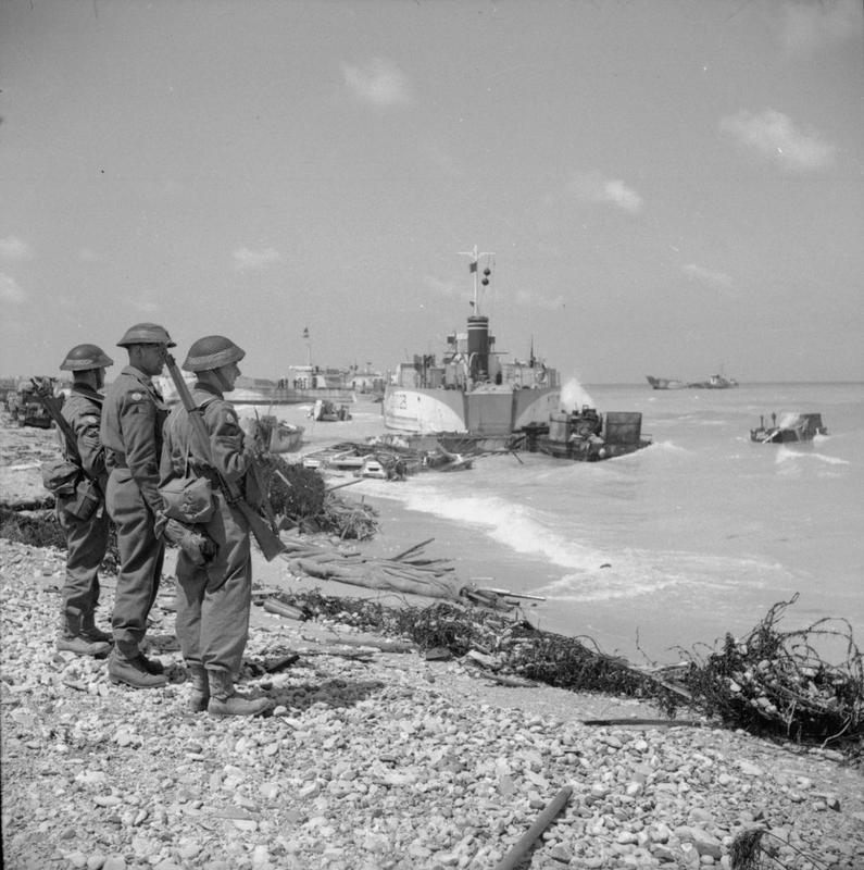 The British Army in the Normandy Campaign 1944 Three Beach Group troops look out from Queen beach,Sword Beach, littered with beached landing craft and wrecked vehicles and equipment, 7 June 1944. A partially submerged D7 armoured bulldozer can be seen on the right.